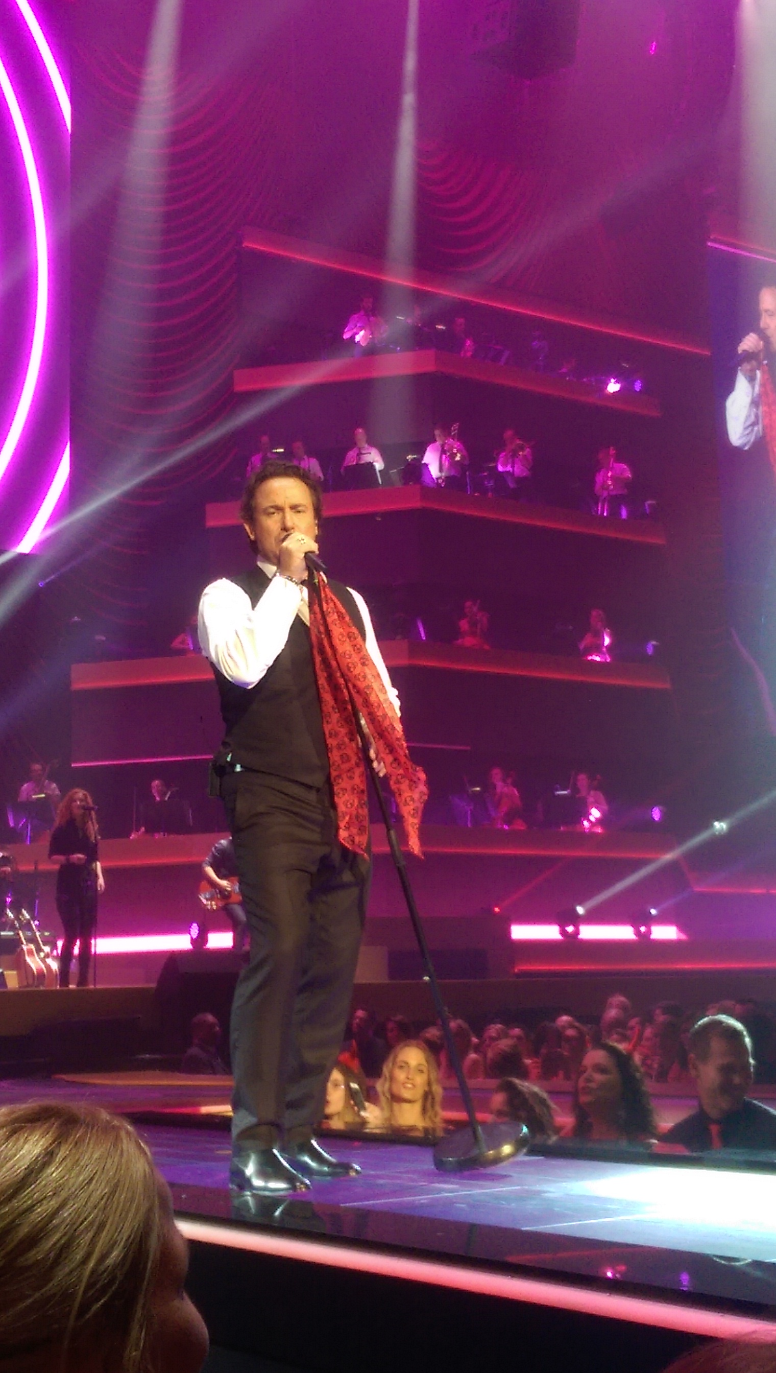 Marco Borsato during one of his Symphonica in Rosso-concerts in 2015.